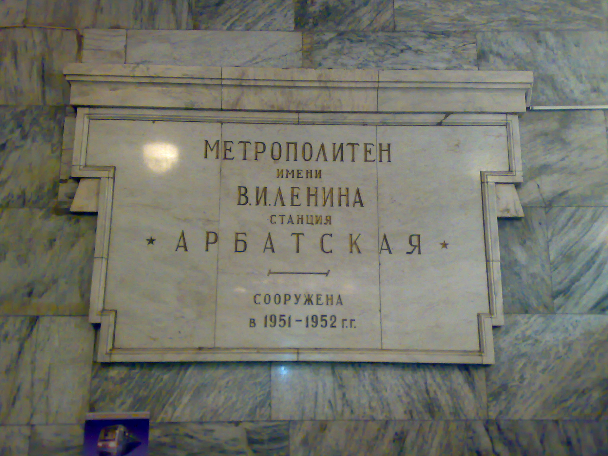 took this image using my mobile on 25 August 2008. Plaque at Arbatskaya Station (Filyovskaya Line) of the Moscow Metro.